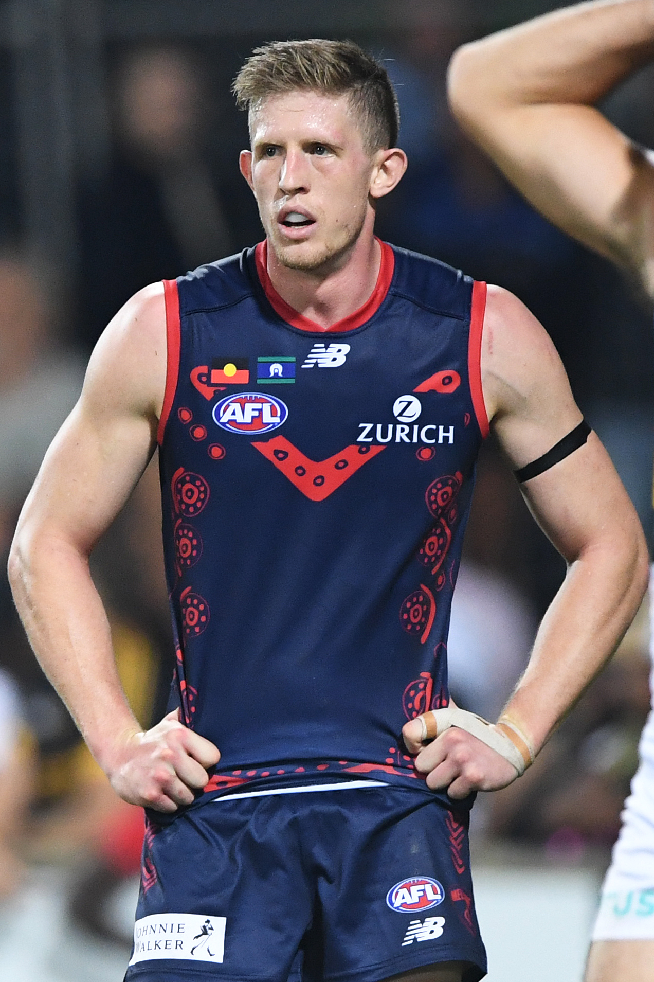 Sam Frost of Melbourne during the 2019 AFL round 11 match between Melbourne and Adelaide at TIO Stadium on Saturday, 1 June 2019 in Darwin, Northern Territory.